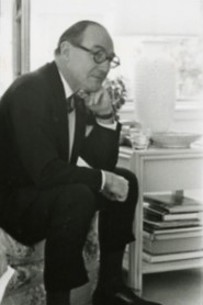 Columnist Joseph Alsop in the White House